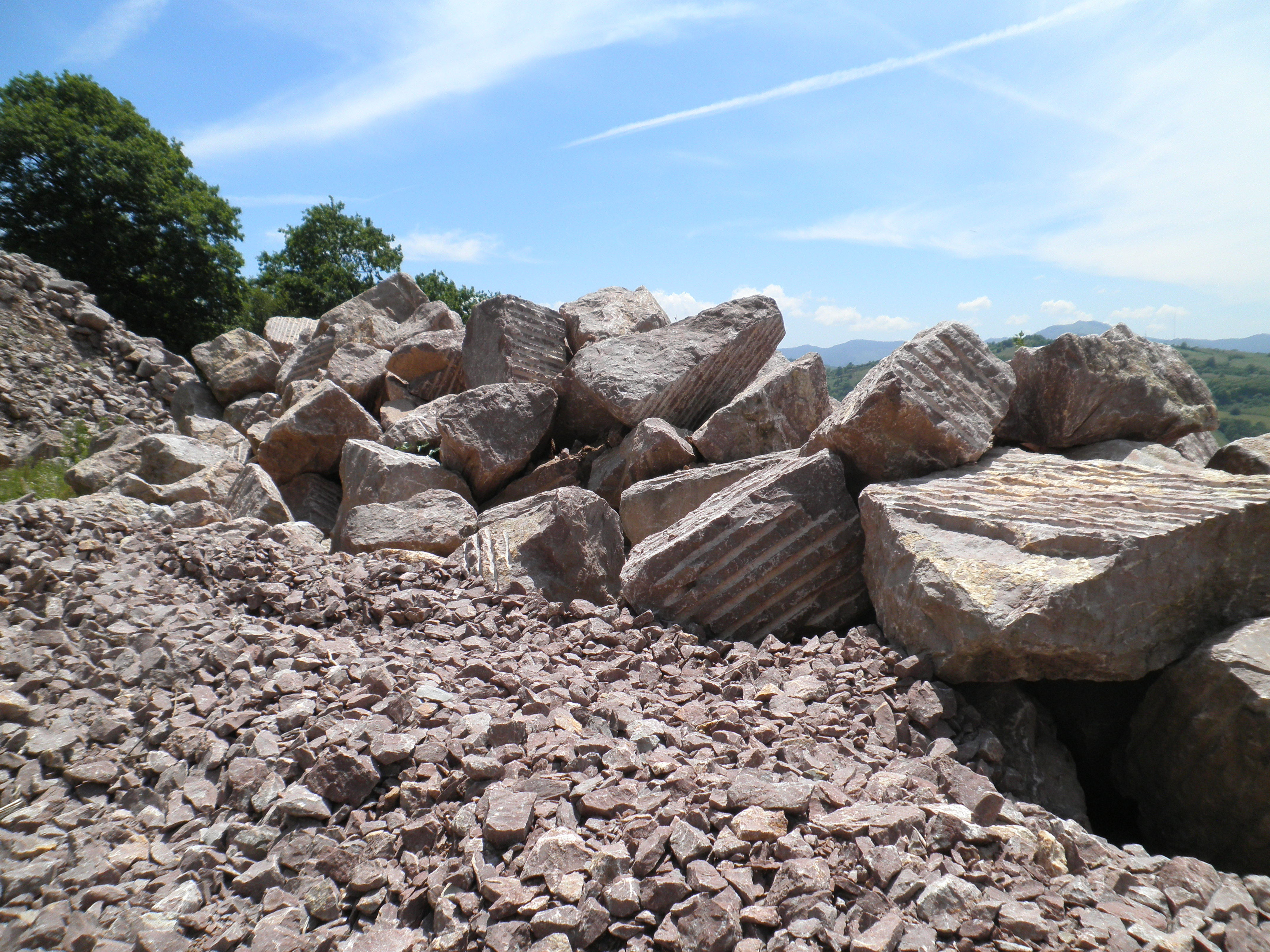 Quarry in Txoritokieta.